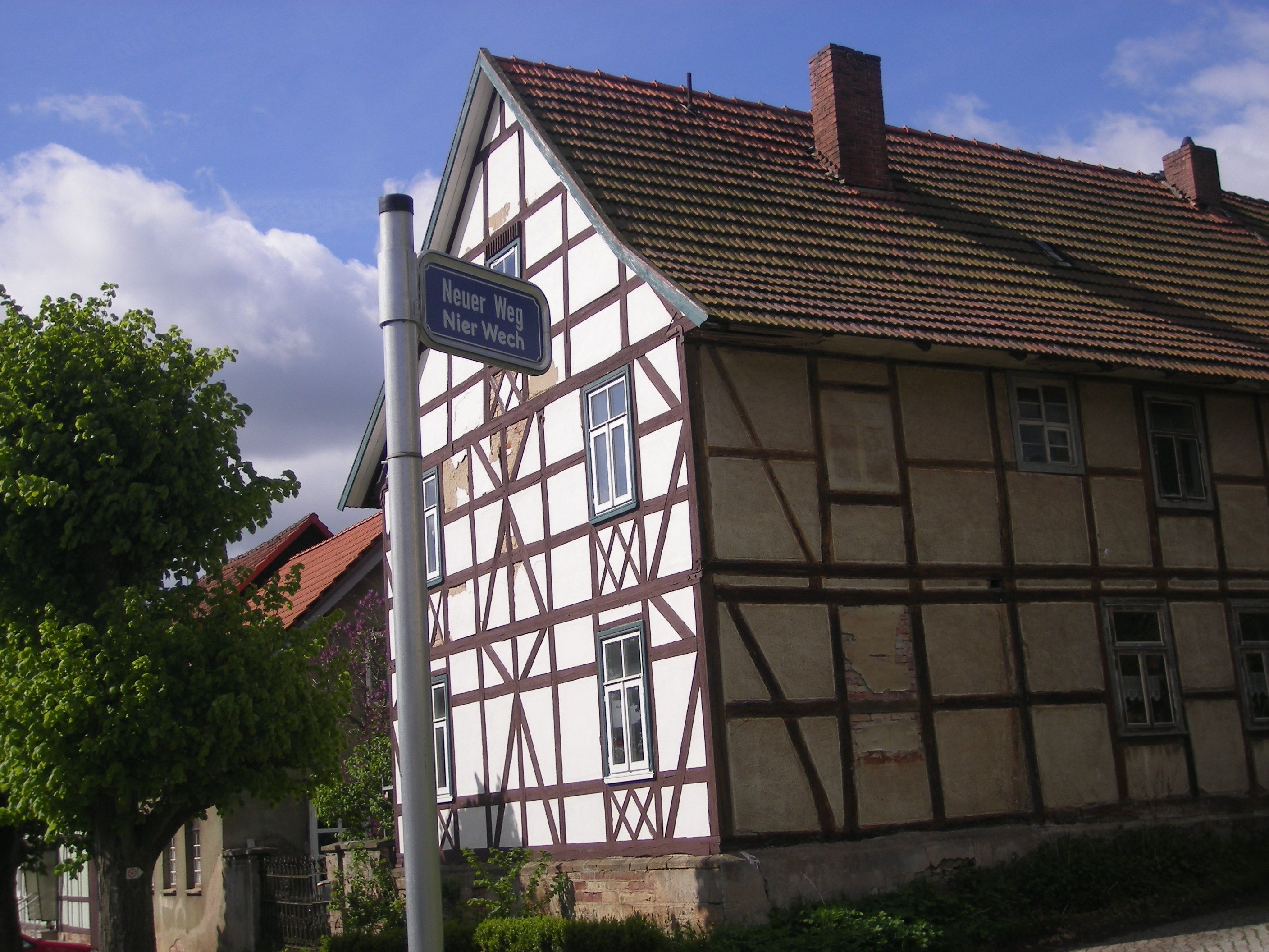 Bilingual street signs in Silkerode in south of the Harz mountains in district of Eichsfeld in Thuringia